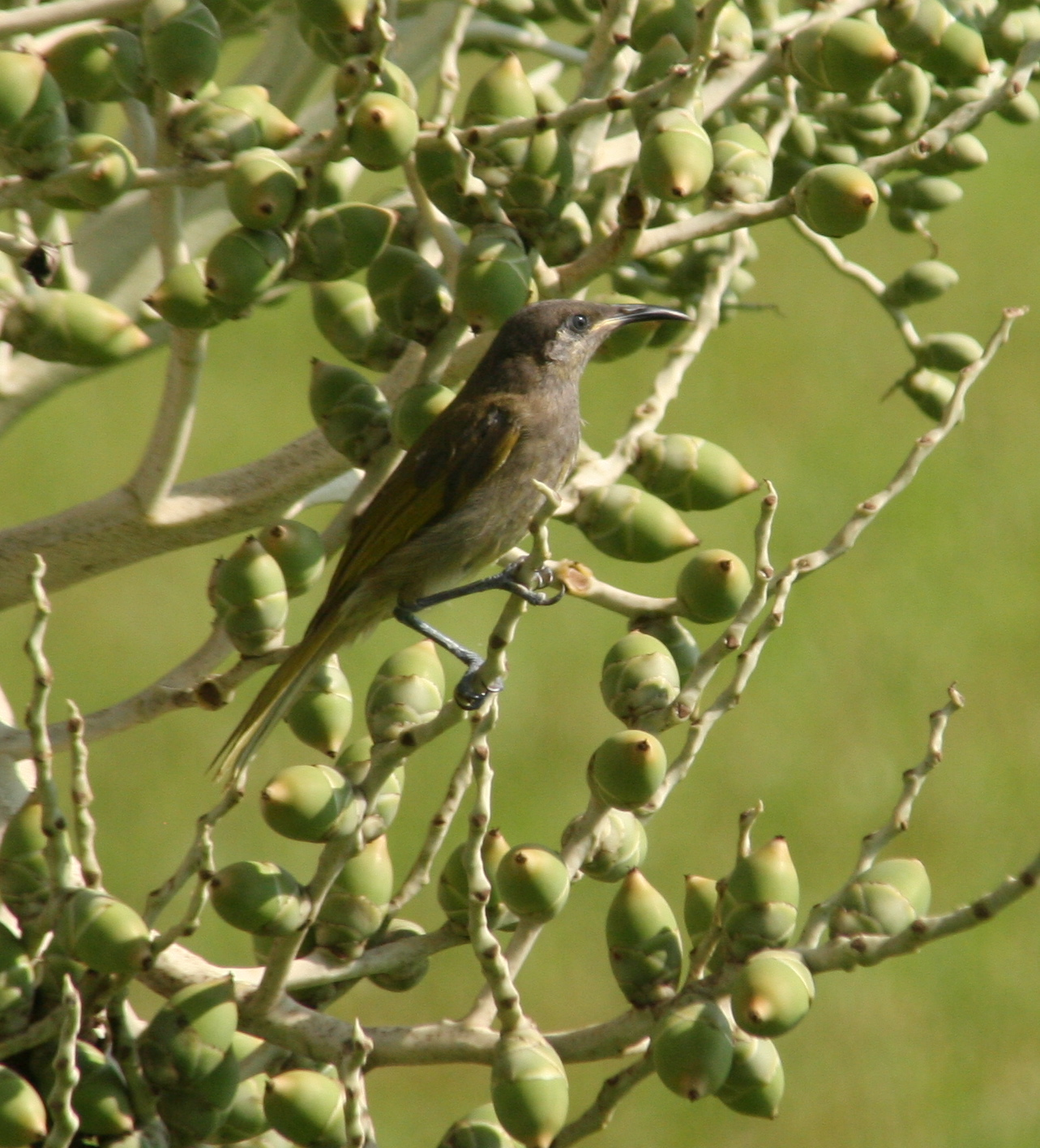 Dark-brown Honeyeater Lichmera incana, Port Vila, Vanuatu